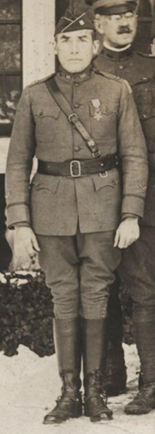 WWI Medal of Honor recipient George G. McMurtry. Note, too, the single wound chevron on his lower right sleeve.